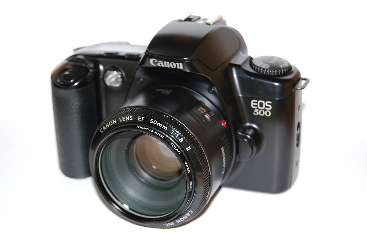 Canon EOS 500 135 film SLR, with Canon EF 50/1.8 lens.